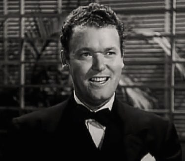 Frank Sully in Let's Go Collegiate (1941) - cropped screenshot